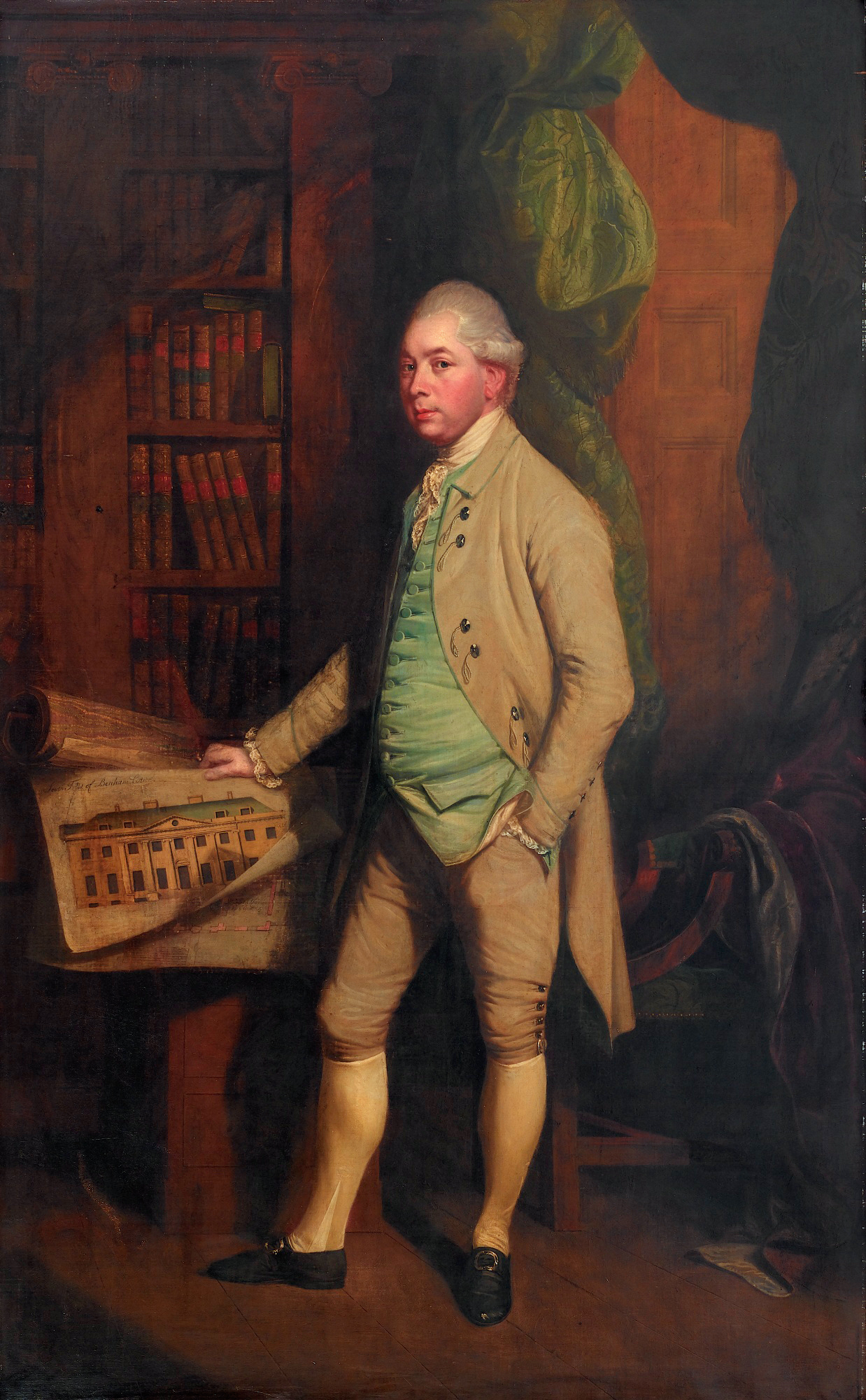 William, 6th earl of Craven, holding the Benham castle plan oil on canvas 239 x 146 cm signed b.r: TBeach Pt / 1778